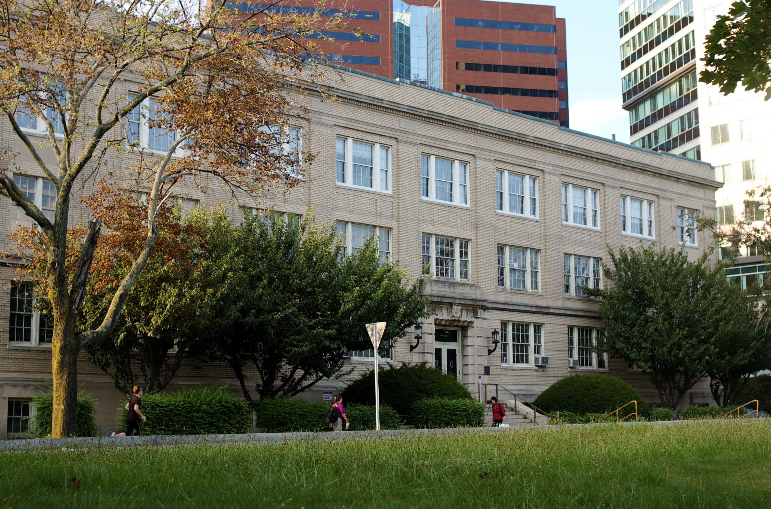 The Arthur D Little Building on Memorial Drive in Cambridge, Massachusetts. This site is on the National Register of Historic Places.